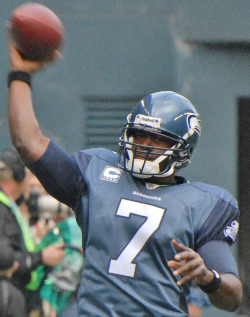 Seattle Seahawks quarterback Tarvaris Jackson warms up before the Seahawks' home opener in CenturyLink Field, Seattle, Wash., Sept. 25, 2011.